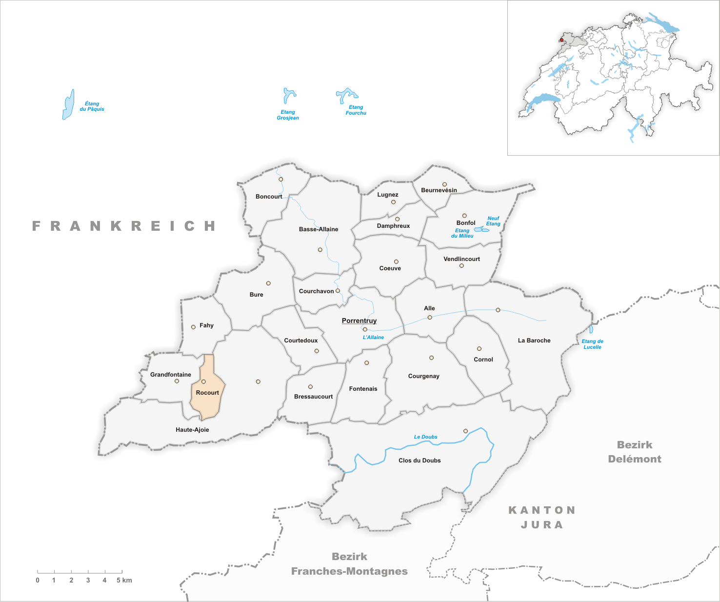 Municipality Rocourt